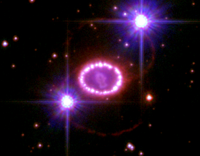 Twenty years ago, astronomers witnessed one of the brightest stellar explosions in more than 400 years. The titanic supernova, called SN 1987A, blazed with the power of 100 million suns for several months following its discovery on Feb. 23, 1987. Observations of SN 1987A, made over the past 20 years by NASA’s Hubble Space Telescope and many other major ground- and space-based telescopes, have significantly changed astronomers' views of how massive stars end their lives. Astronomers credit Hubble's sharp vision with yielding important clues about the massive star's demise. This Hubble telescope image shows the supernova’s triple-ring system, including the bright spots along the inner ring of gas surrounding the exploded star. A shock wave of material unleashed by the stellar blast is slamming into regions along the inner ring, heating them up, and causing them to glow. The ring, about a light-year across, was probably shed by the star about 20,000 years before it exploded.